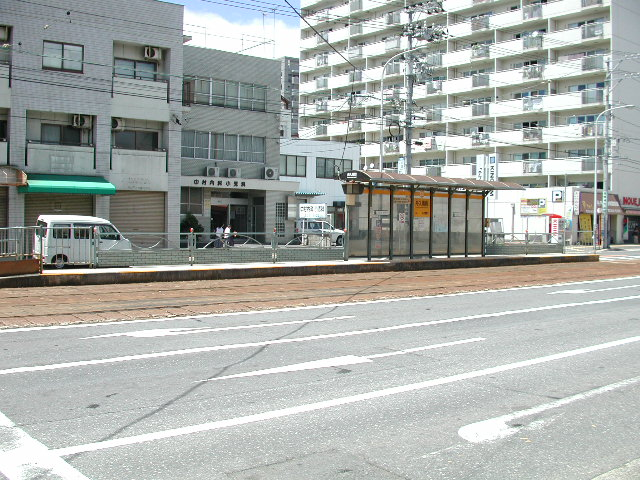 Hiroshima Electric Railway Funairi Minami-machi Station for Hiroshima station and Yokogawa Station(広島電鉄舟入南町電停 広島駅・横川駅方面乗り場)